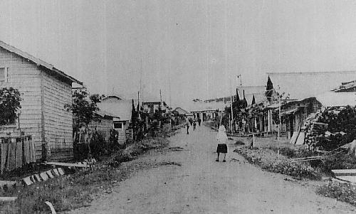 Tomari (russian: Golovnino) Village in Kunashiri (called "Kunashir" by the Russians) Island